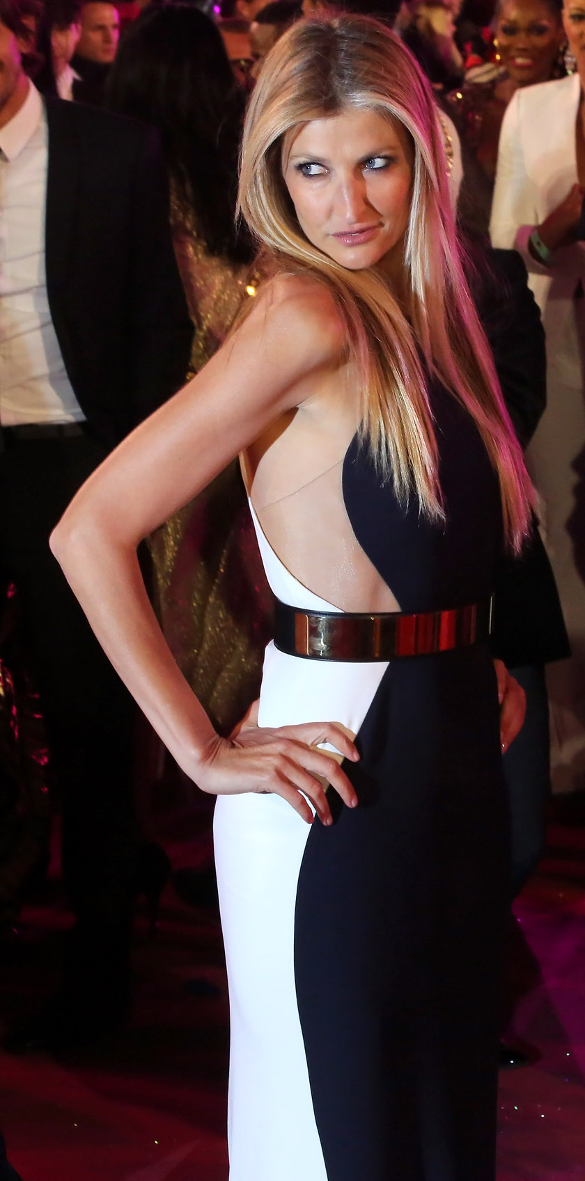 Tereza Maxová on the 'magenta carpet' at Life Ball 2013 at the square in front of the city hall of Vienna, Vienna, Austria.